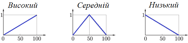 Функції приналежності термів лінгвістичної змінної «Тиск»